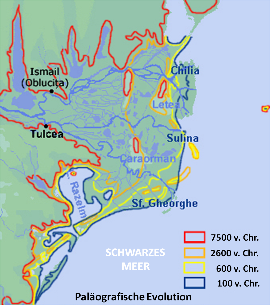 Paleogeography & evolution of Danube delta, since Antipa, Gâstescu & Gomoiu.